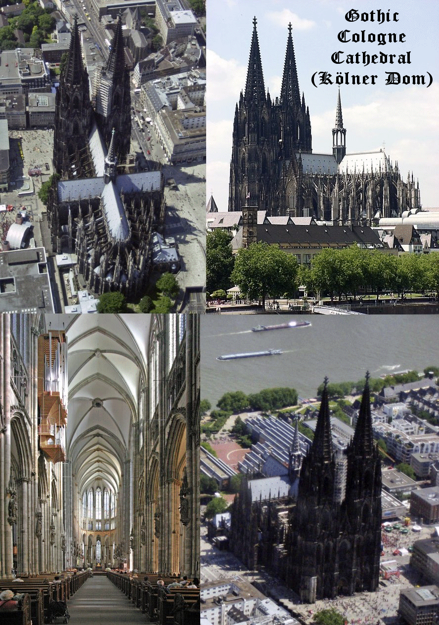 Cologne Cathedral